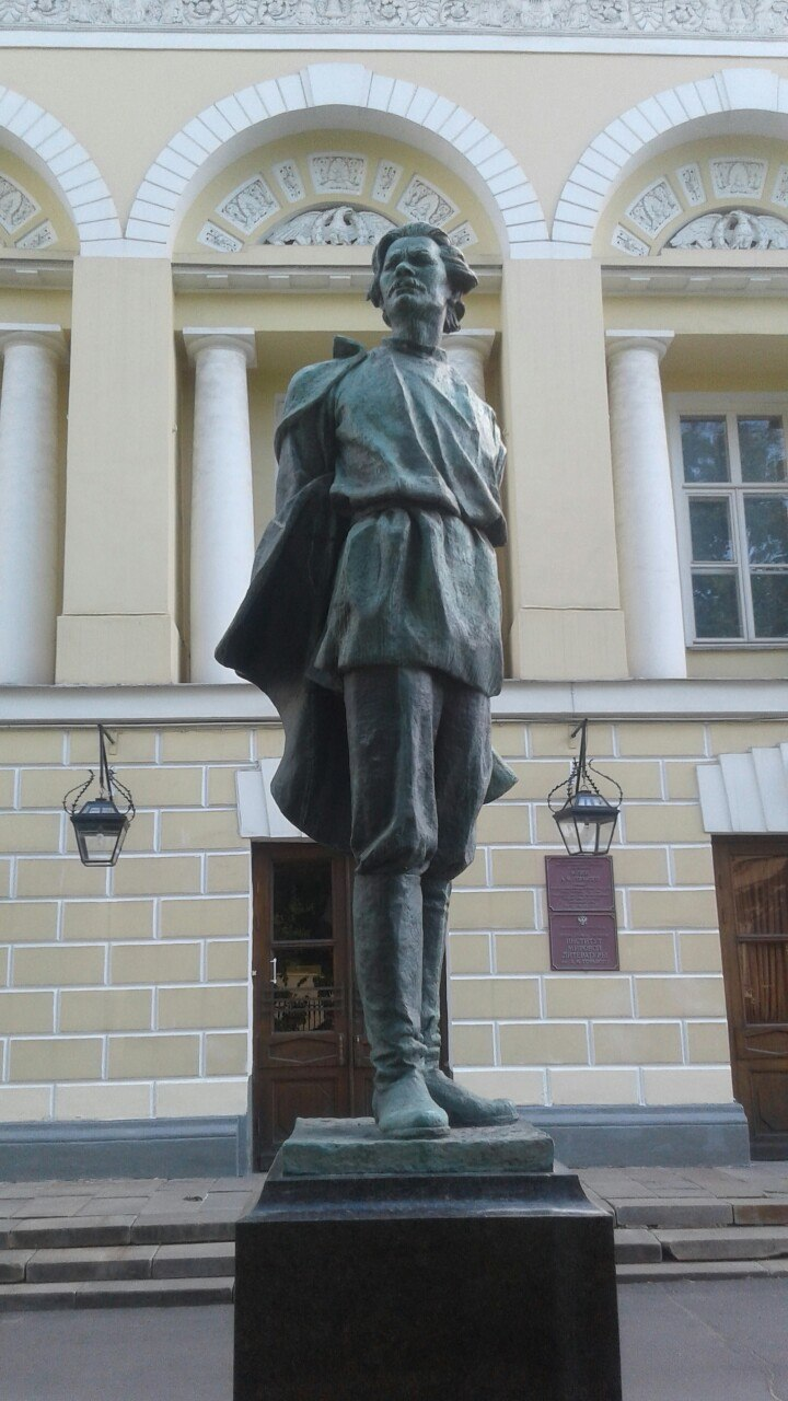 Maxim Gorky monument, Moscow, Russia